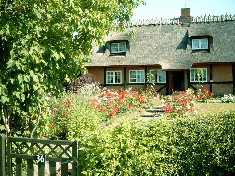 Typical thatch-roofed house in Høje-Taastrup village, Denmark. Photographer: Dan Simon